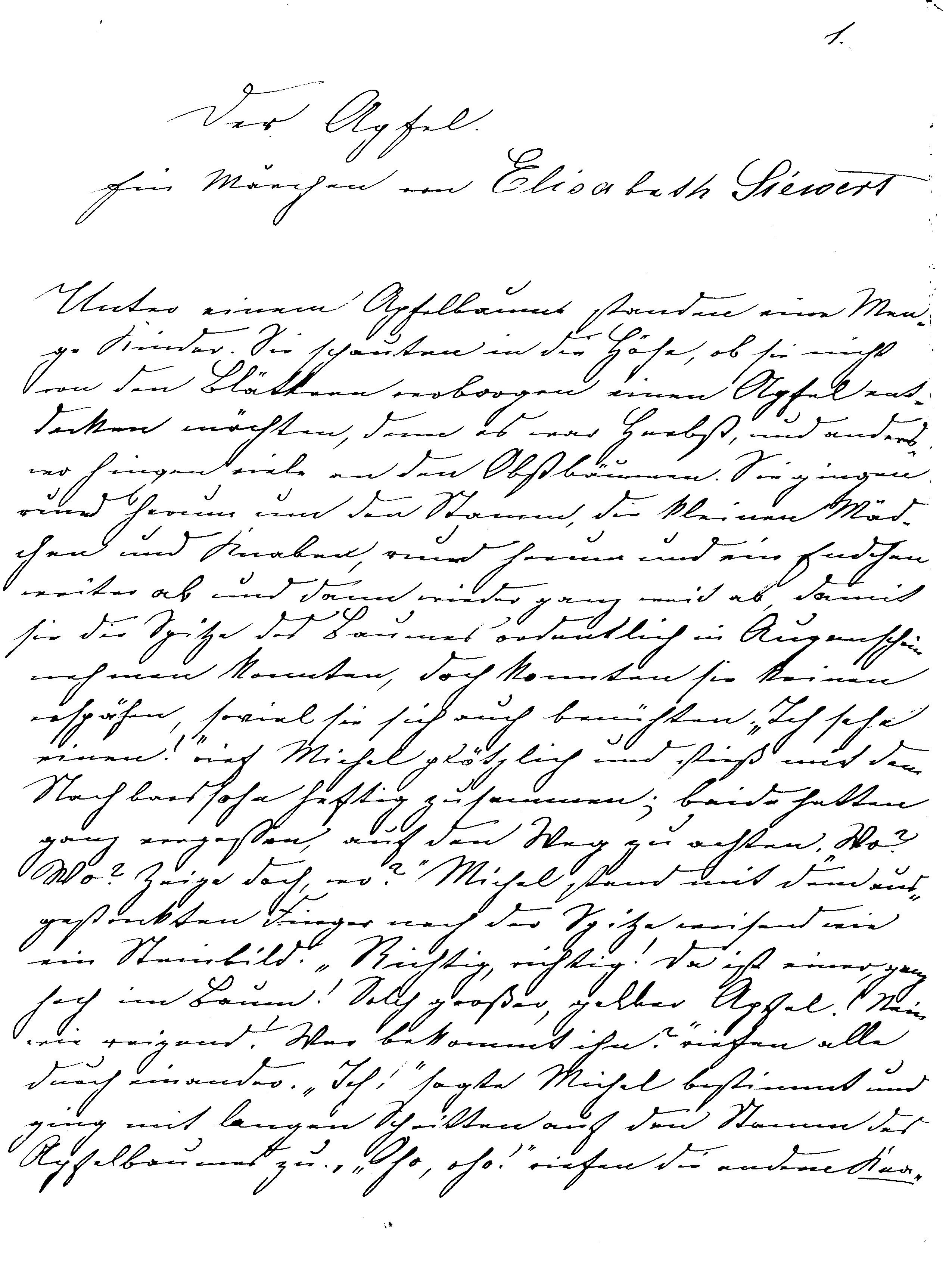 Manuscript of the German writer Elisabeth Siewert (1867–1930). First page (from 18) of the probably not published narration Der Apfel (german for: The Apple). The date is unknown.